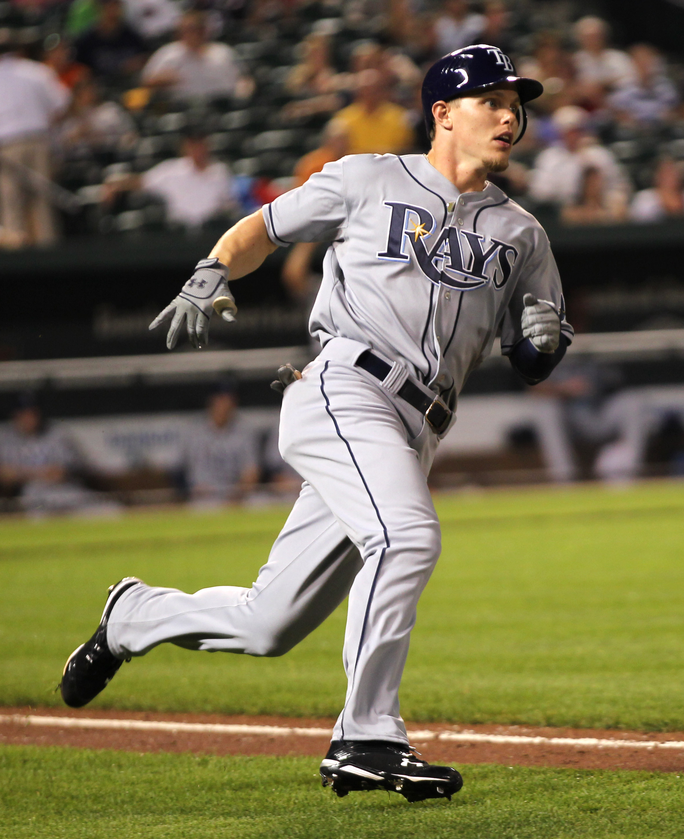 Brandon Guyer